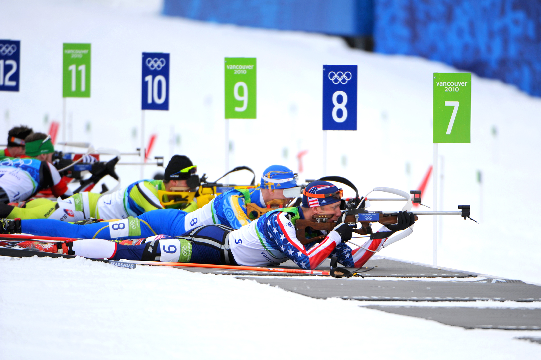 U.S. Army World Class Athlete Program biathlete Sgt. Jeremy Teela, far right, shoots a perfect 10 for 10 from the prone position on his way to a 24th-place finish in the OIympic men's 12.5-kilometer pursuit at Whistler Olympic Park in British Columbia during the 2010 Winter Olympics. With #8: Björn Ferry, with #7 Pavol Hurajt, with #11 Simon Eder